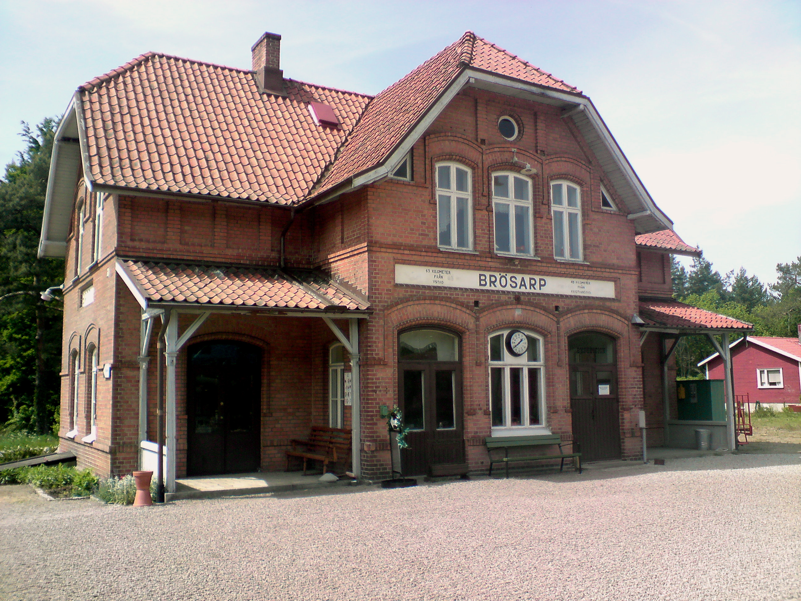 Station building of railway station of Brösarp, text on building says 63 km from Ystad and 40 km from Kristianstad